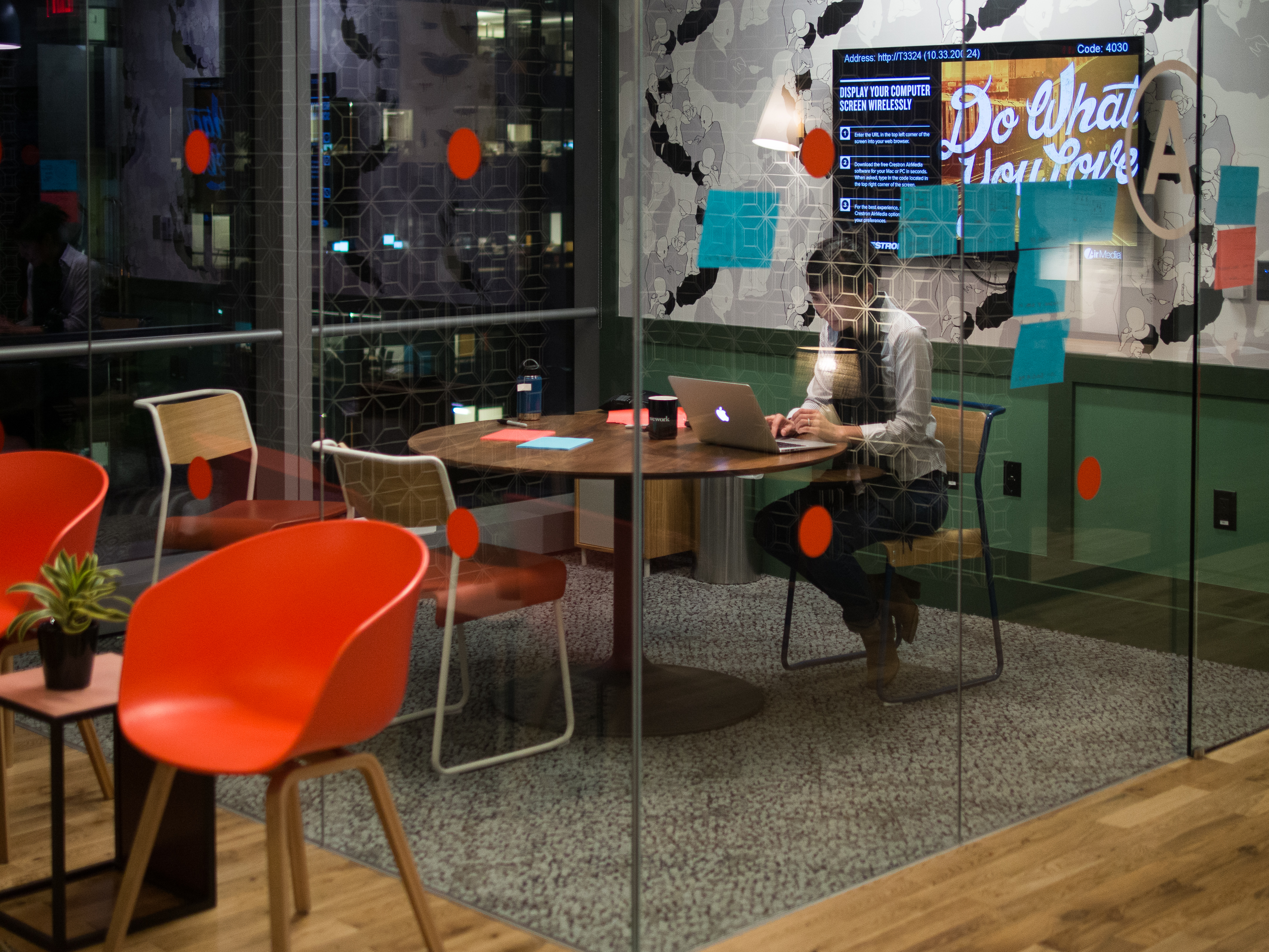 Day 321 of 2015.